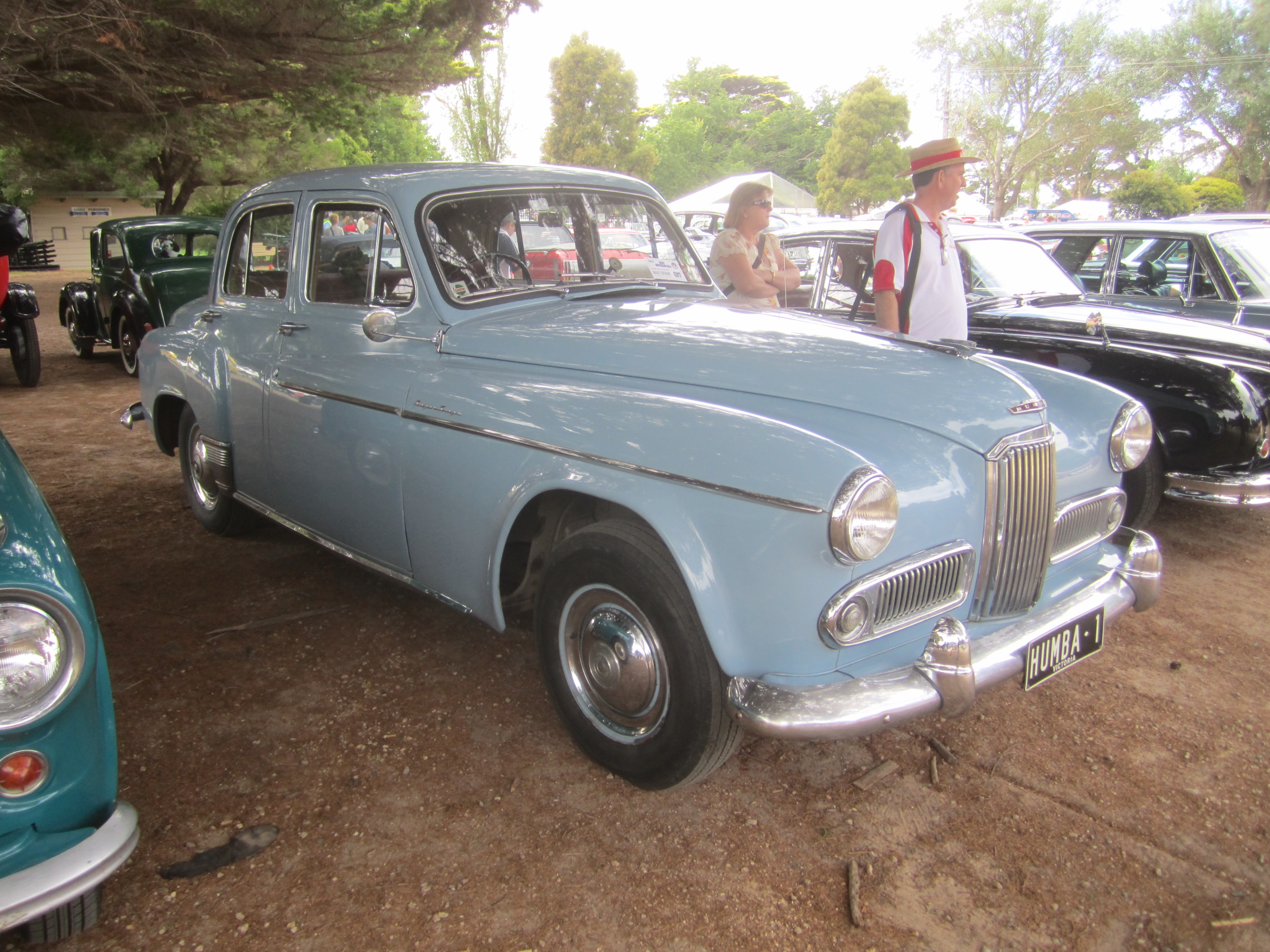 The Super Snipe evolved though several versions, each designated by a Mark number, each generally larger, more powerful, and more modern, until production ended in 1957 1945 MkI; 4086cc 6 an enlarged version of the model before, the Hawk. 1948 MkII; the headlights moved into the guards (round parkers below lights). 1949; MkII; rectangular side parkers. 1950 MkIII; dome shaped bumpers and stainless steel treads on running boards. 1952 MkIV; used the lesser Hawk body, but lengthened and new 4138cc OHV 6 (Hawk 2267cc).